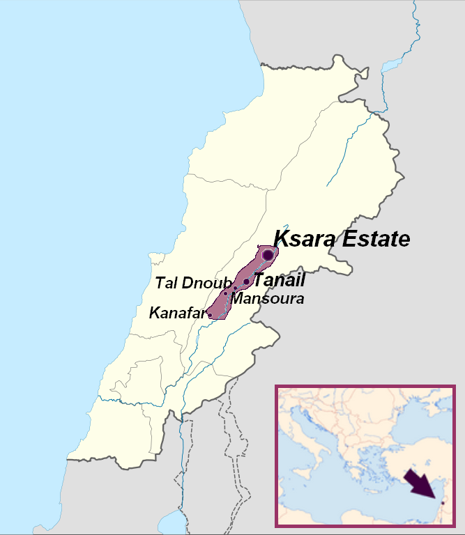 Chateau Ksara: Geographical positions of vineyard